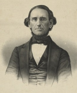 Title: Nicholas Tillinghast Description: Nicholas Tillinghast, the founding principal of the State Normal School at Bridgewater, Massachusetts. Date: [ca. 1840–1850] Format: Prints Genre: Lithographs Location: Bridgewater State University, Maxwell Library Archives & Special Collections Collection (local): Bridgewater State University Historical Photographs (Oversize) Subjects: Tillinghast, Nicholas (1804-1856) Extent: 1 lithograph ; 28 x 22 in. Permalink